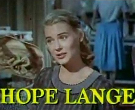 Screenshot of Hope Lange from the trailer for the film Peyton Place